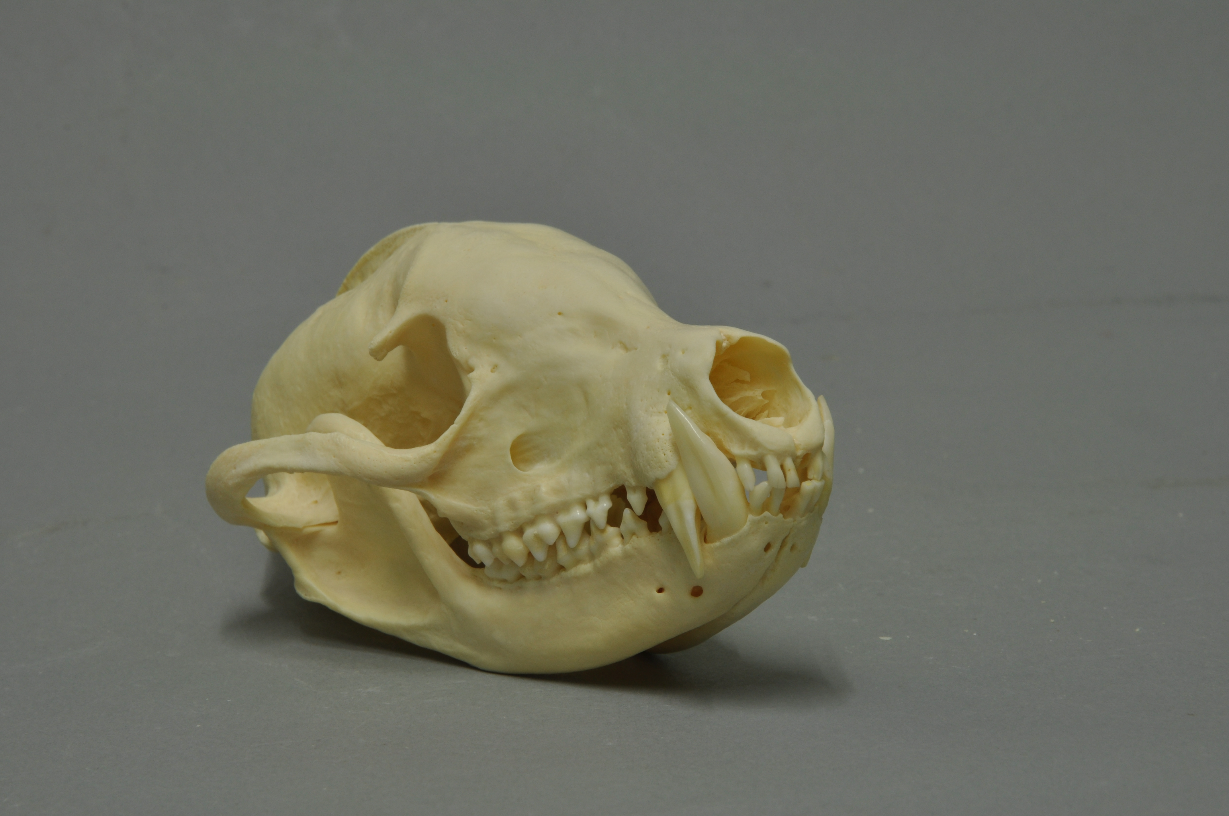 white-nosed coati Nasua narica , skull, Coll. Museum Wiesbaden